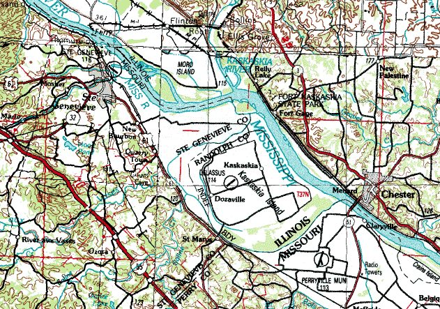 USGS topographic map of Kaskaskia, Illinois and surrounding area. Also shown: Interstate 55, U.S. Route 61, Illinois Route 3, Missouri Route 32, Missouri Route 51